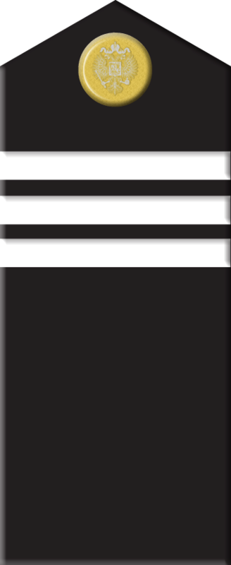 Rank insignia of the Imperial Russian Navy until 1917, here "Bootsmann Maat" .